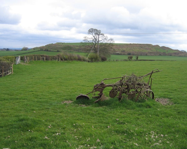 Old Oswestry Hillfort Viewed from the footpath between Pentre-clawdd and the road past Old Oswestry, the Iron Age hillfort is still an amazing structure after 3,000 years. In the foreground the old plough is slowly rusting away.